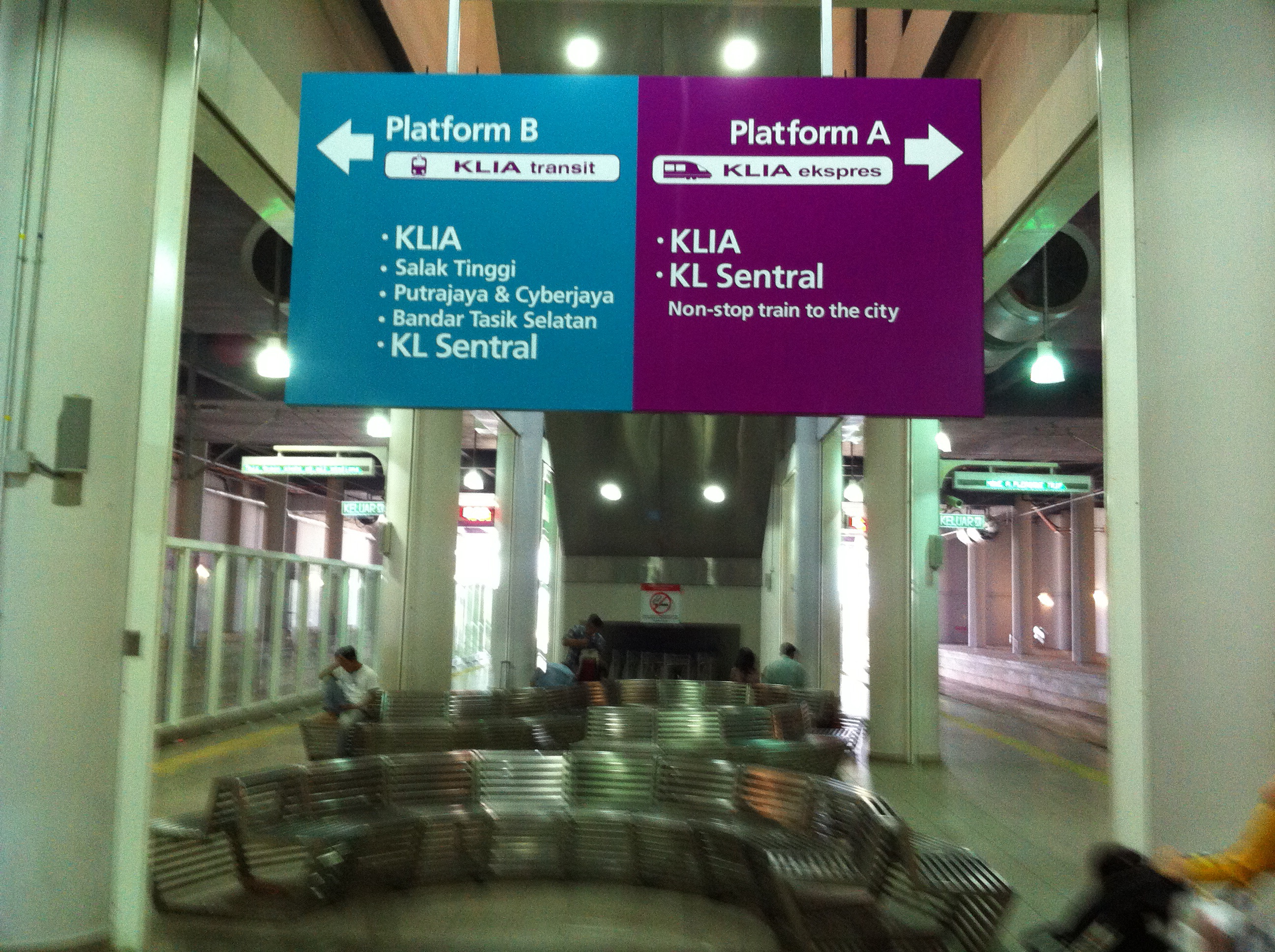 klia2 erl platform signage